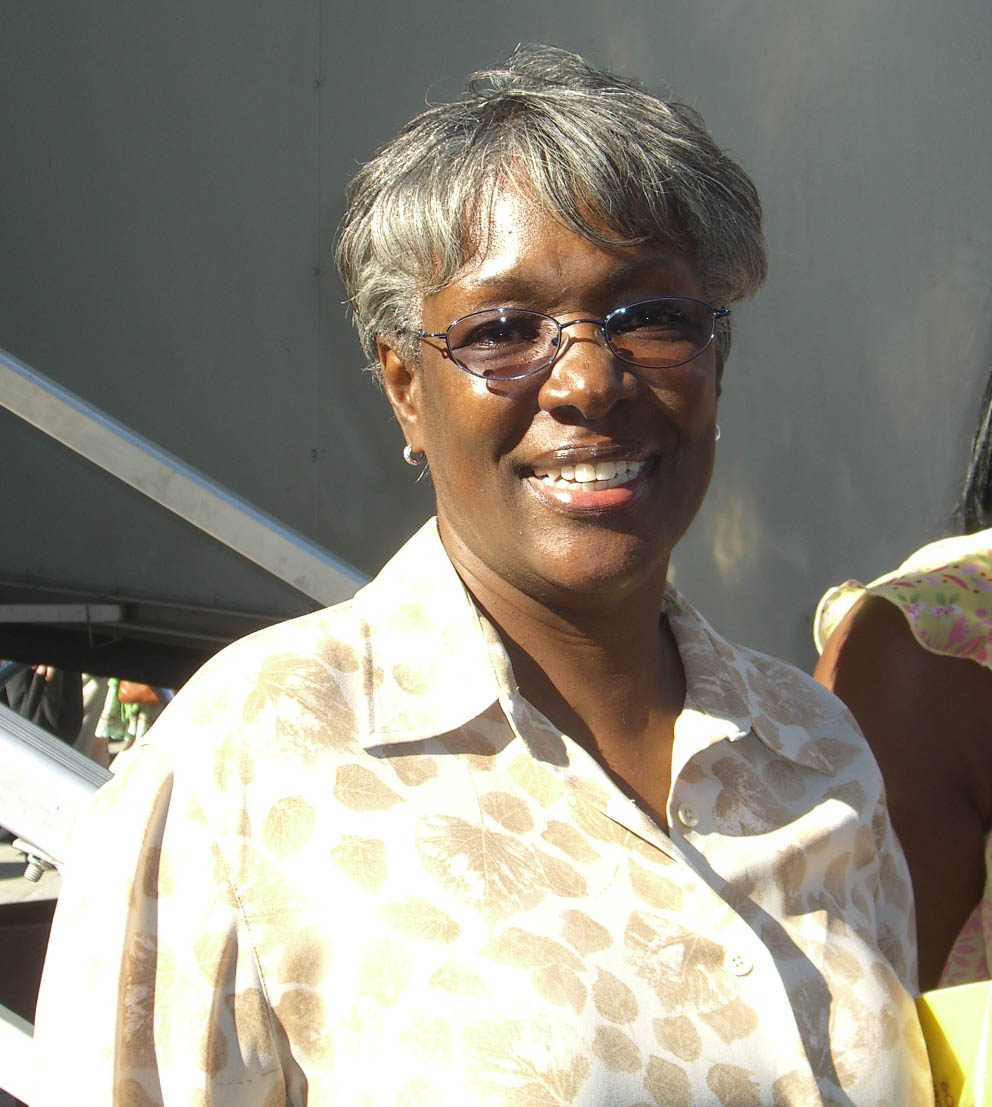 Writer Rochelle Alers at the October 13, 2009 Brooklyn Book Festival. This photo was created by Luigi Novi. It is not in the public domain, and use of this file outside of the licensing terms is a copyright violation.